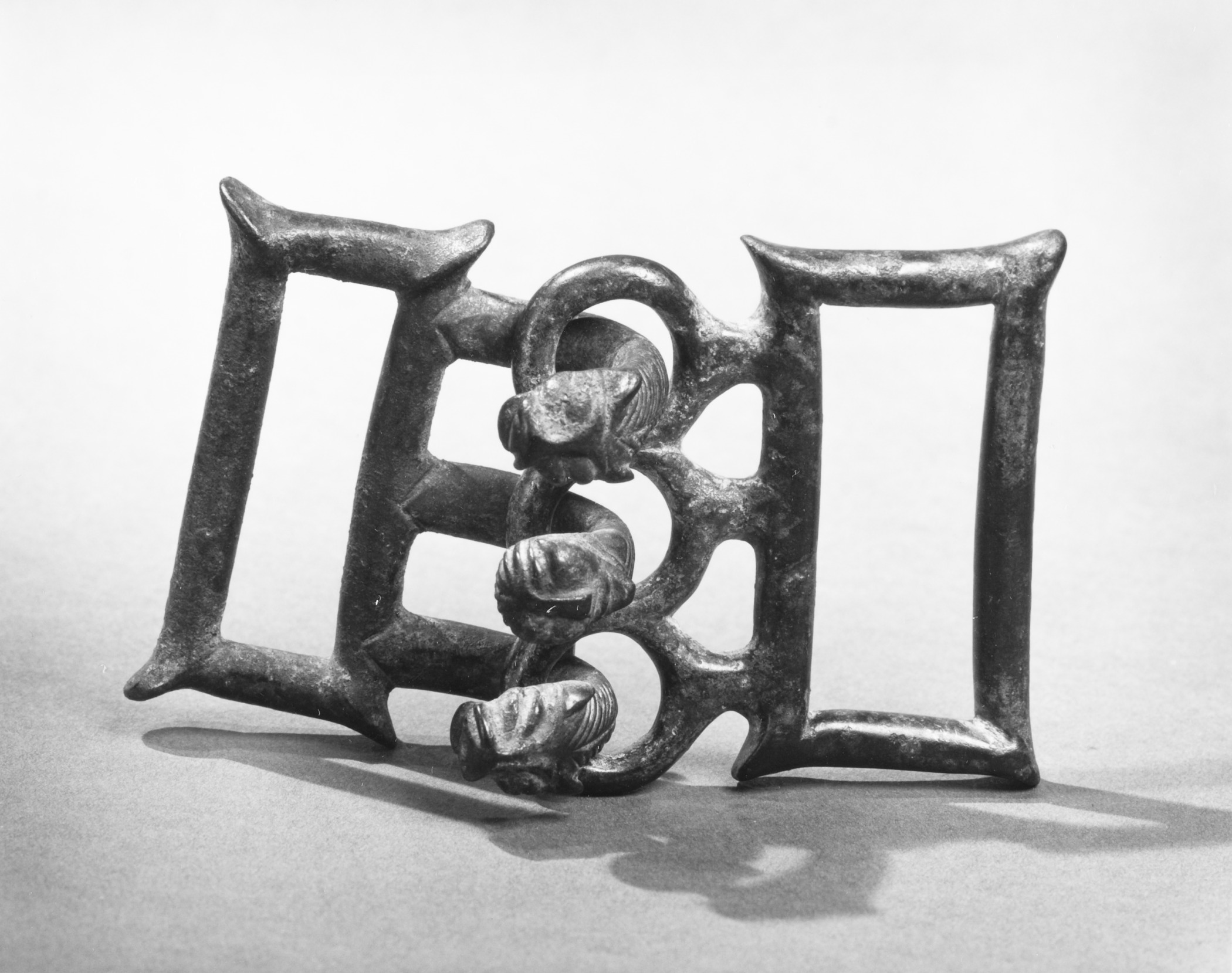 Italy, Villanovan, 9th-8th century B.C. Costumes; Accessories Bronze H: 2.56 in. (6.5 cm); W: 3.98 in. (10.1 cm) The Nasli M. Heeramaneck Collection of Ancient Near Eastern and Central Asian Art, gift of The Ahmanson Foundation (M.76.97.873a-b) Greek, Roman and Etruscan Art